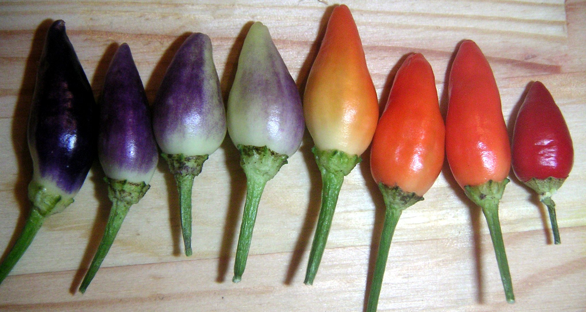 Photographer: Carstor Title: Capsicum annuum 'Twilight' - unripe (left) to ripe (right).